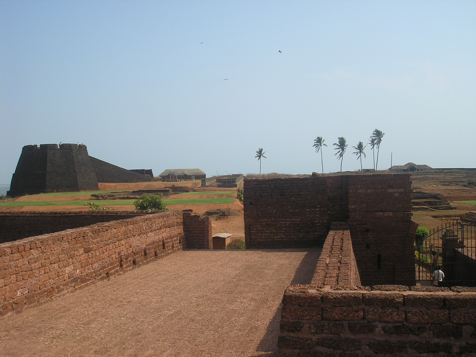 Bekal Fort